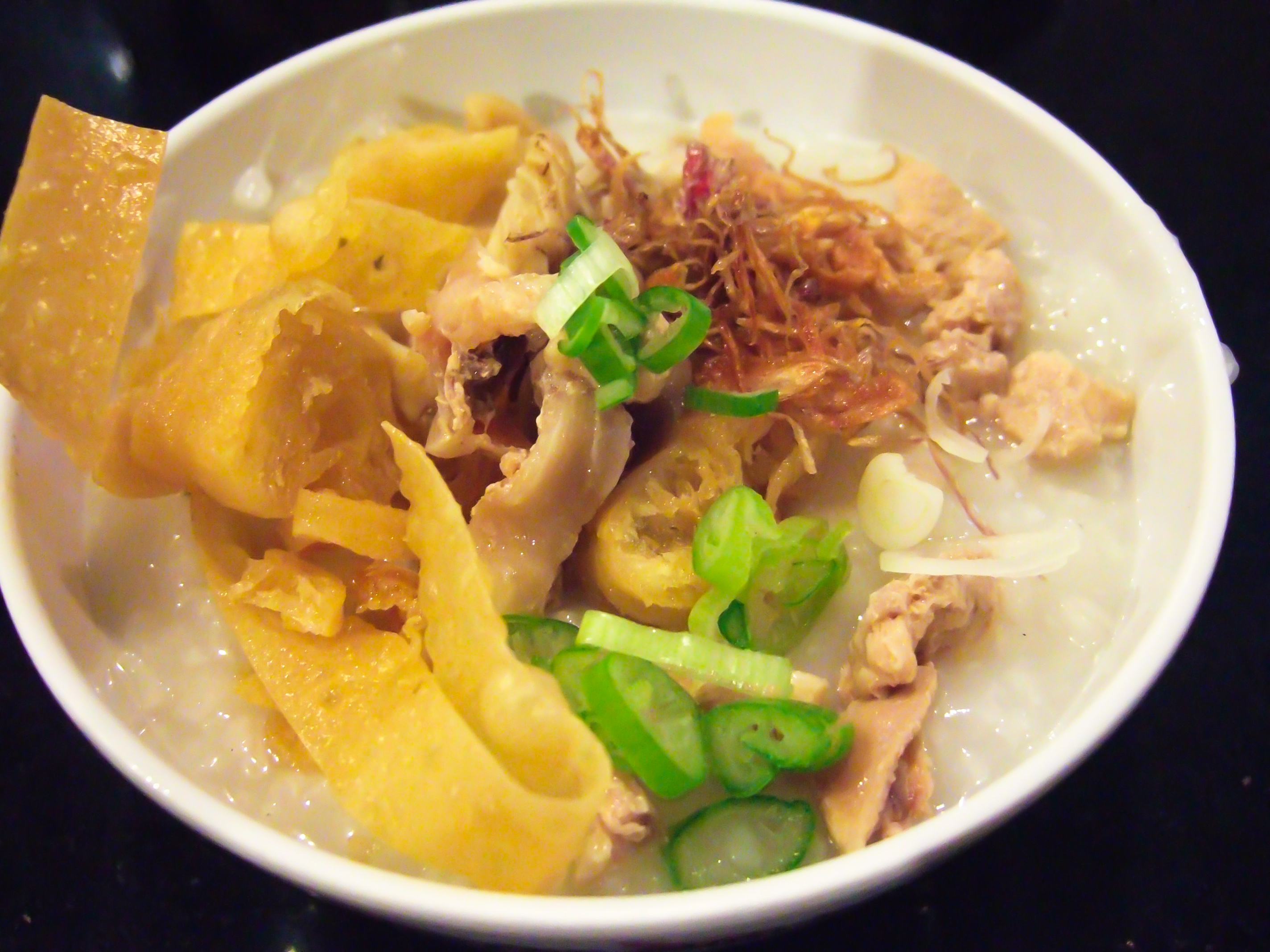 Chicken porridge, Jakarta, Indonesia